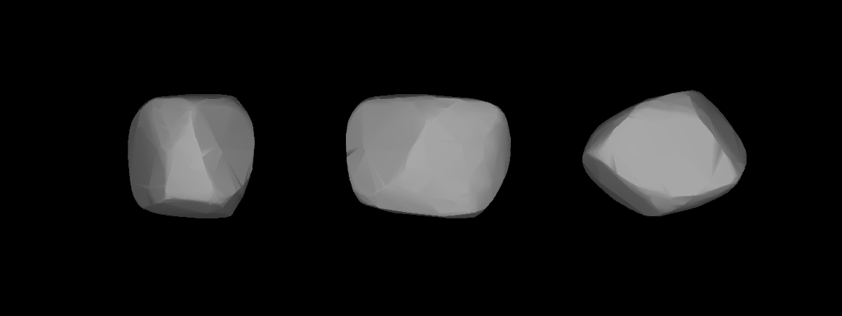 A three-dimensional model of 800 Kressmannia that was computed using light curve inversion techniques.